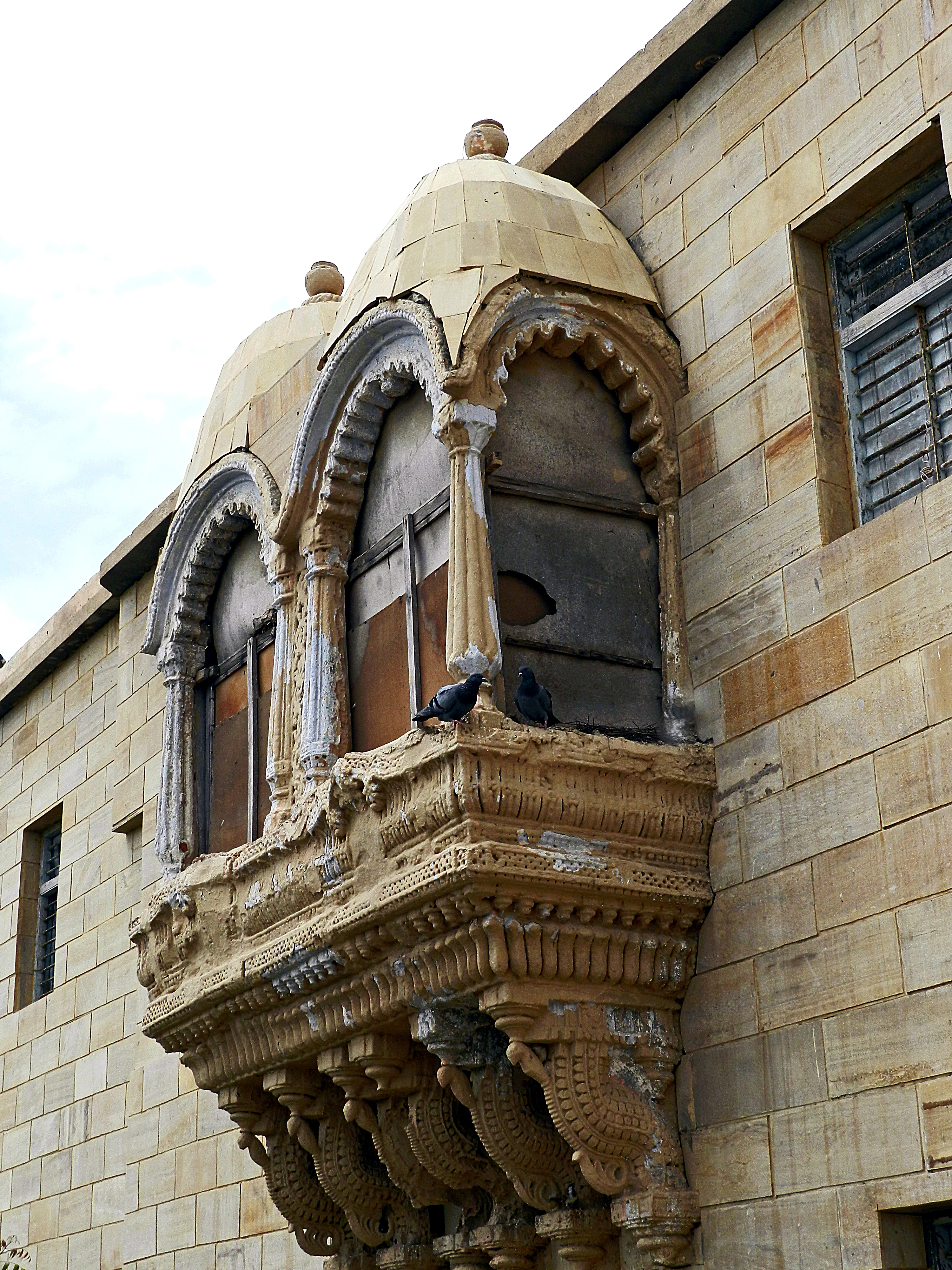 This ancient balcony is in the 'Koteshwar Temple' complex, in Kutch, on the western border of India, close to the river Indus. it is now covered and not used. For full details, see wikipedia link .